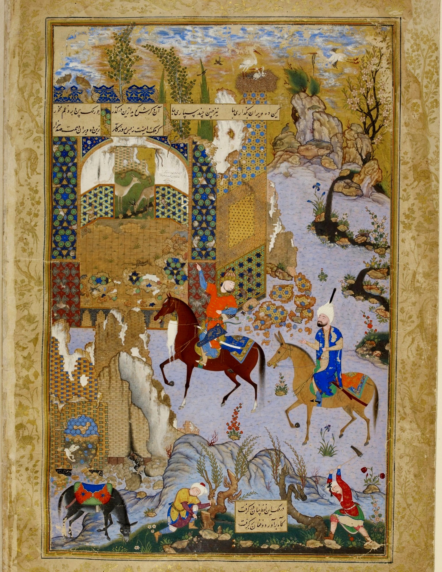 Mir Musavvir. Nushirvan and the Owls, Khamsa Nizami, 1539-40, fol. 15v. British Library